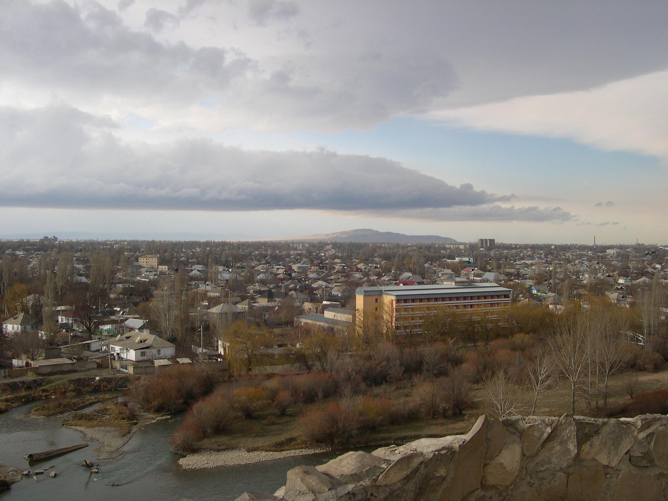 View of Taraz from the Mausoleum of Tekturmas.